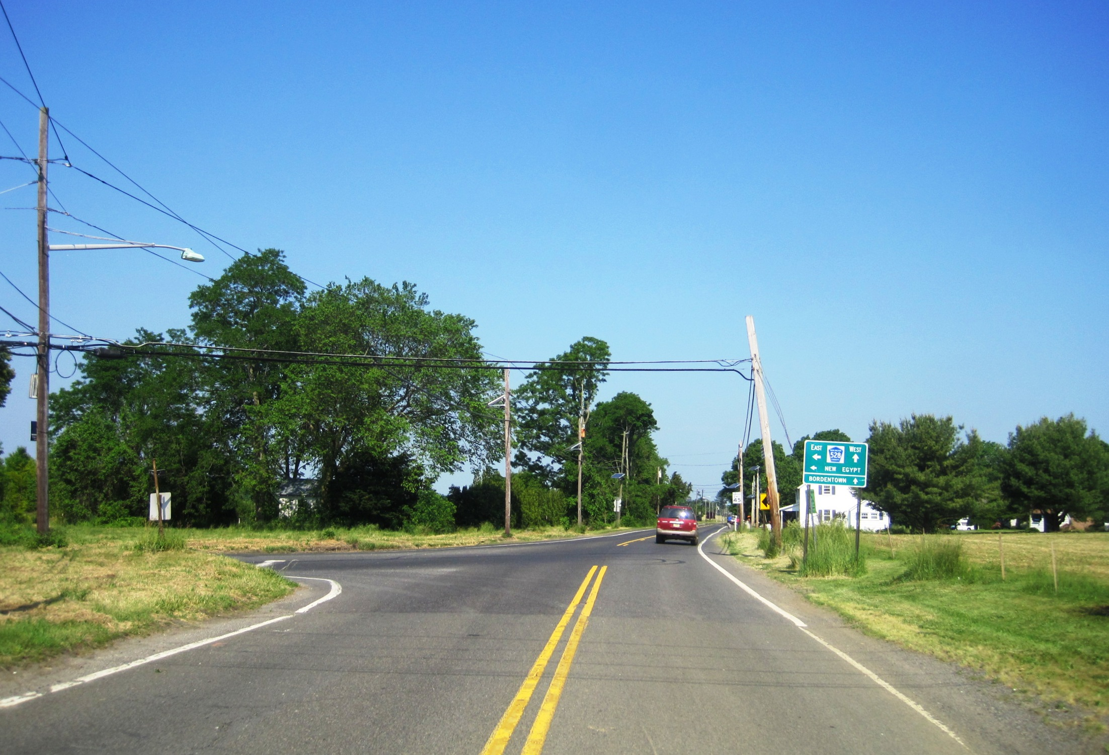 Photo showing Davisville, New Jersey, an unincorporated community within Chesterfield Township. Photo was taken along westbound Chesterfield-Arneytown Road (County Route 664) approaching CR 528).